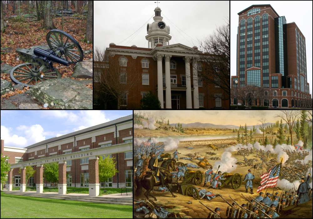 Collage of Murfreesboro landmarks and items of historical interest. Top row: Cannon at Stones River National Battlefield, Rutherford County Courthouse, City Center Building. Bottom row: MTSU's Paul W. Martin Sr. Honors Building, Battle of Stones River illustration.